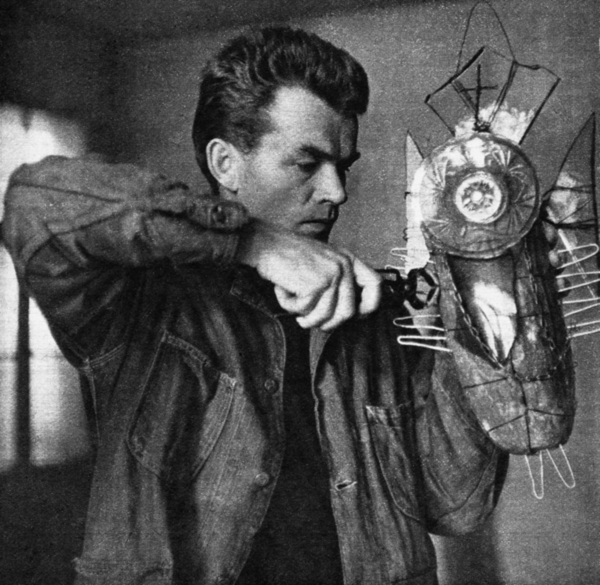 Władysław Hasior 1966